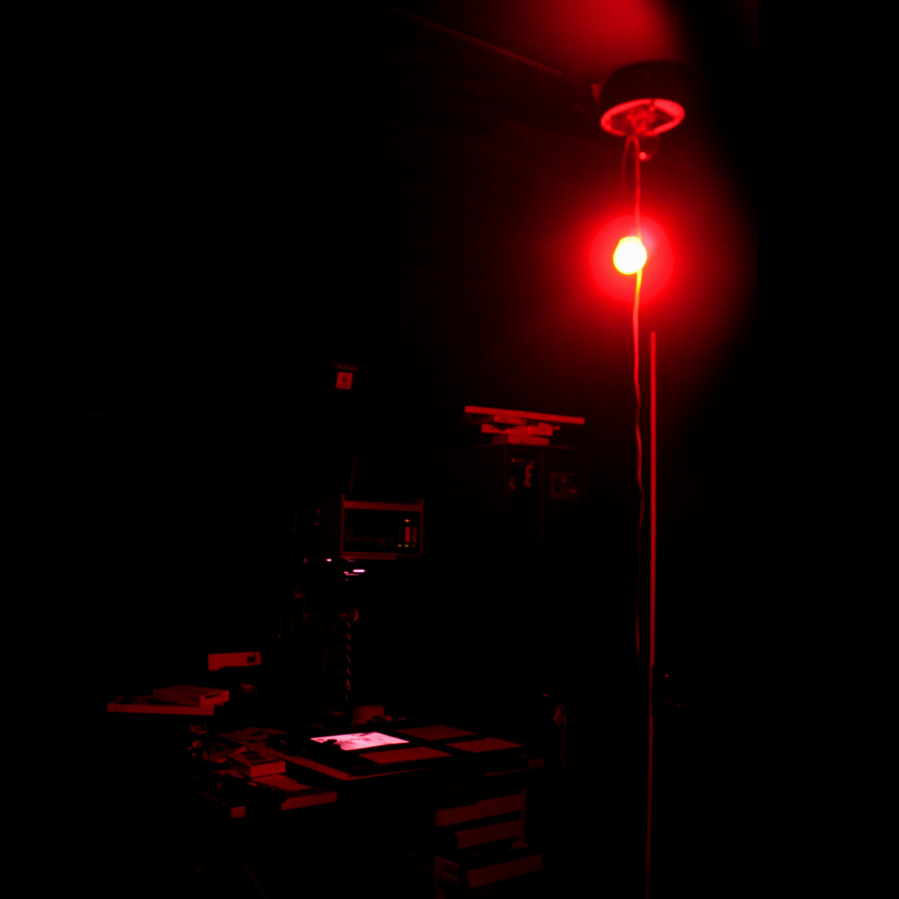 Professional dark room in Ylämaa, Finland